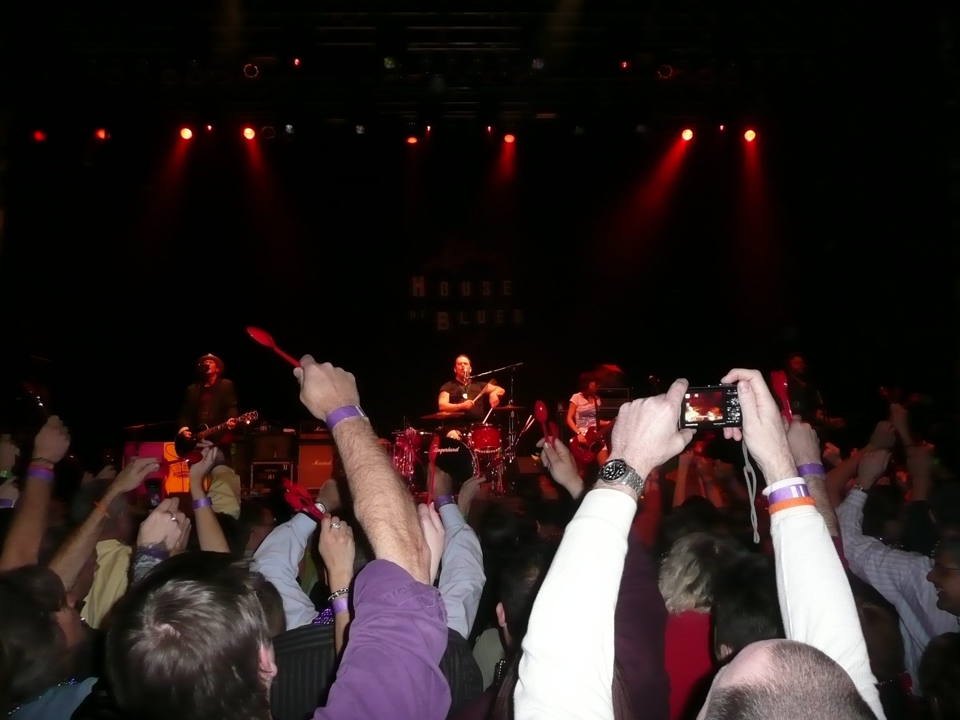 Cowboy Mouth playing Everybody Loves Jill at the House of Blues in Houston on Mardi Gras, 16 February 2010. Fans wave red spoons before throwing them at the band at the "red spoon" lyric cue.